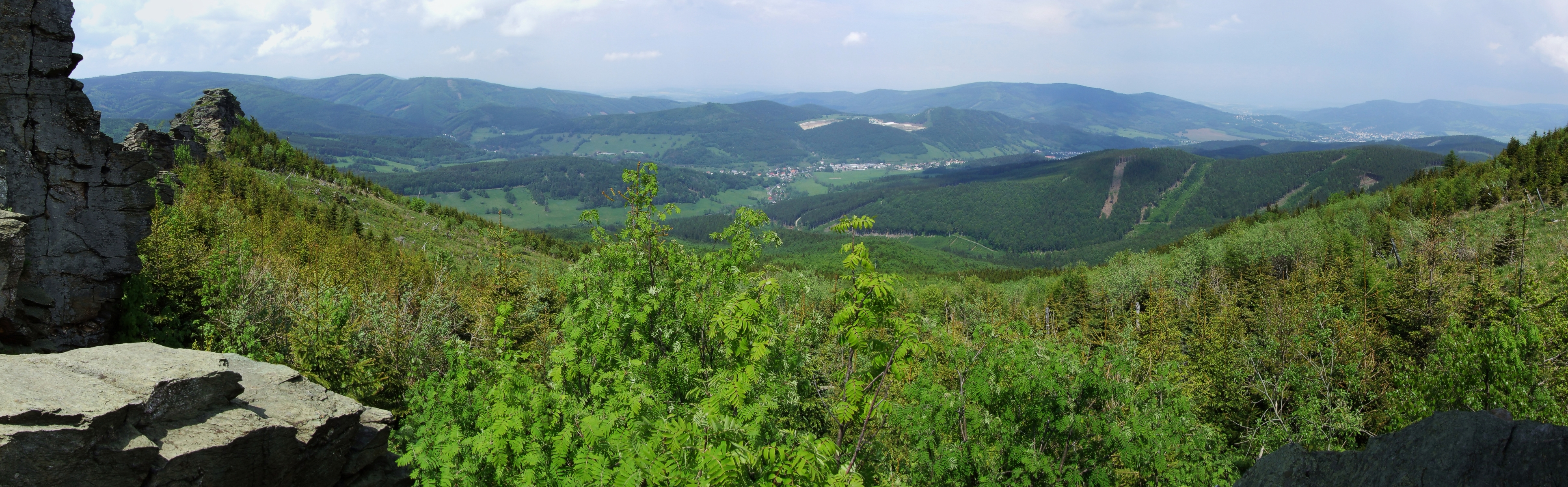 Jeseníky - view from Obří skály